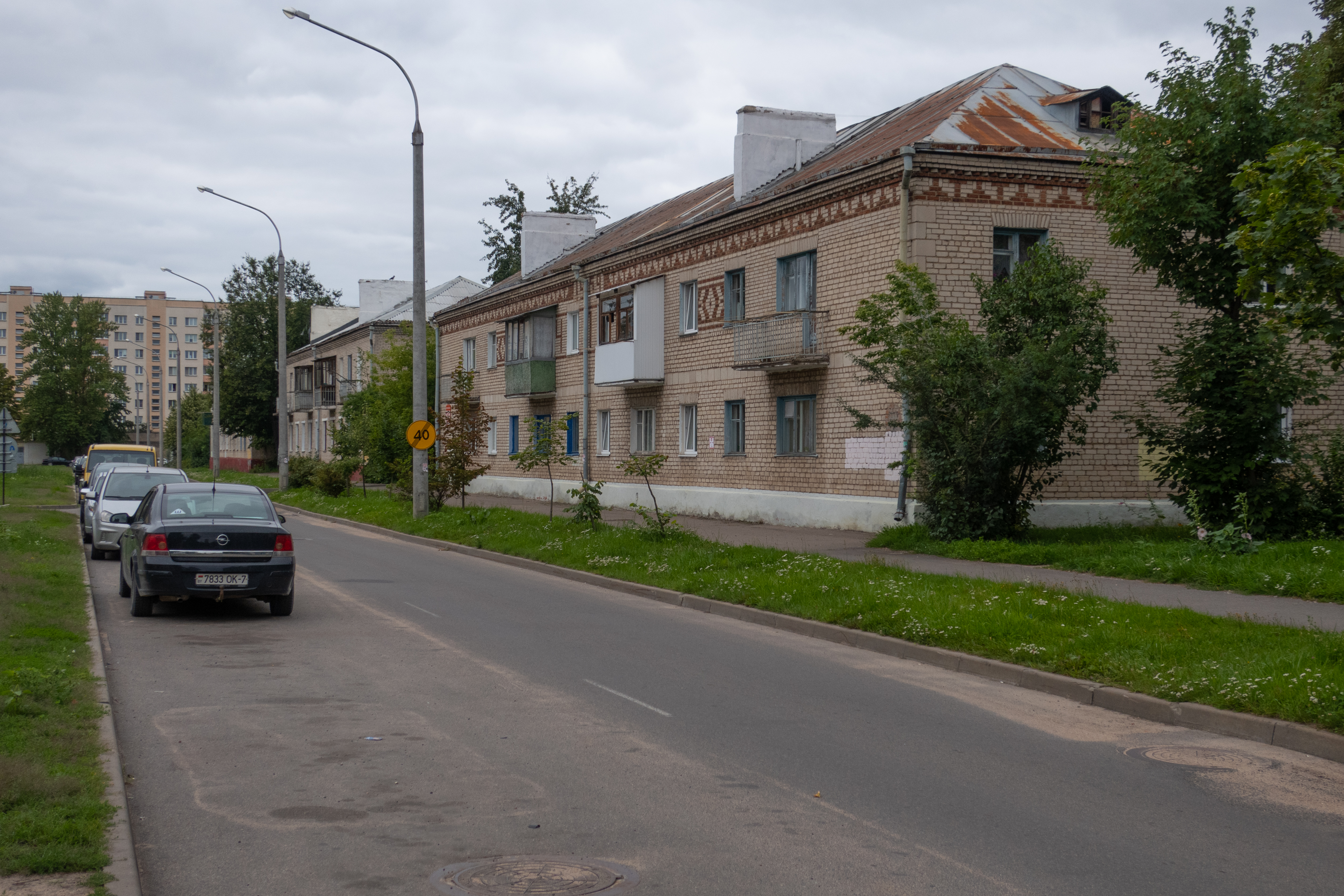 Zaparožskaja (Zaporizhia) Street. Minsk, Belarus